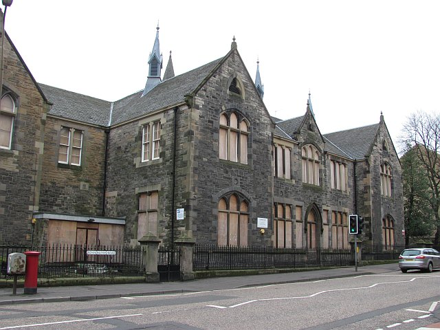 Bonnington Primary School The Bonnington Road elevation of the building. The school closed in December 2008.